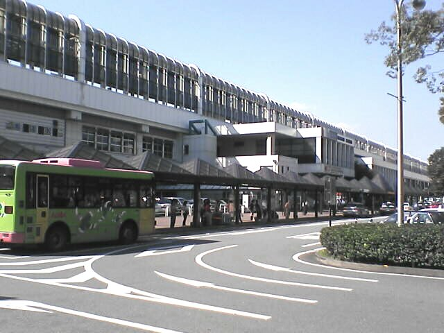 East exit of Takasaki Station